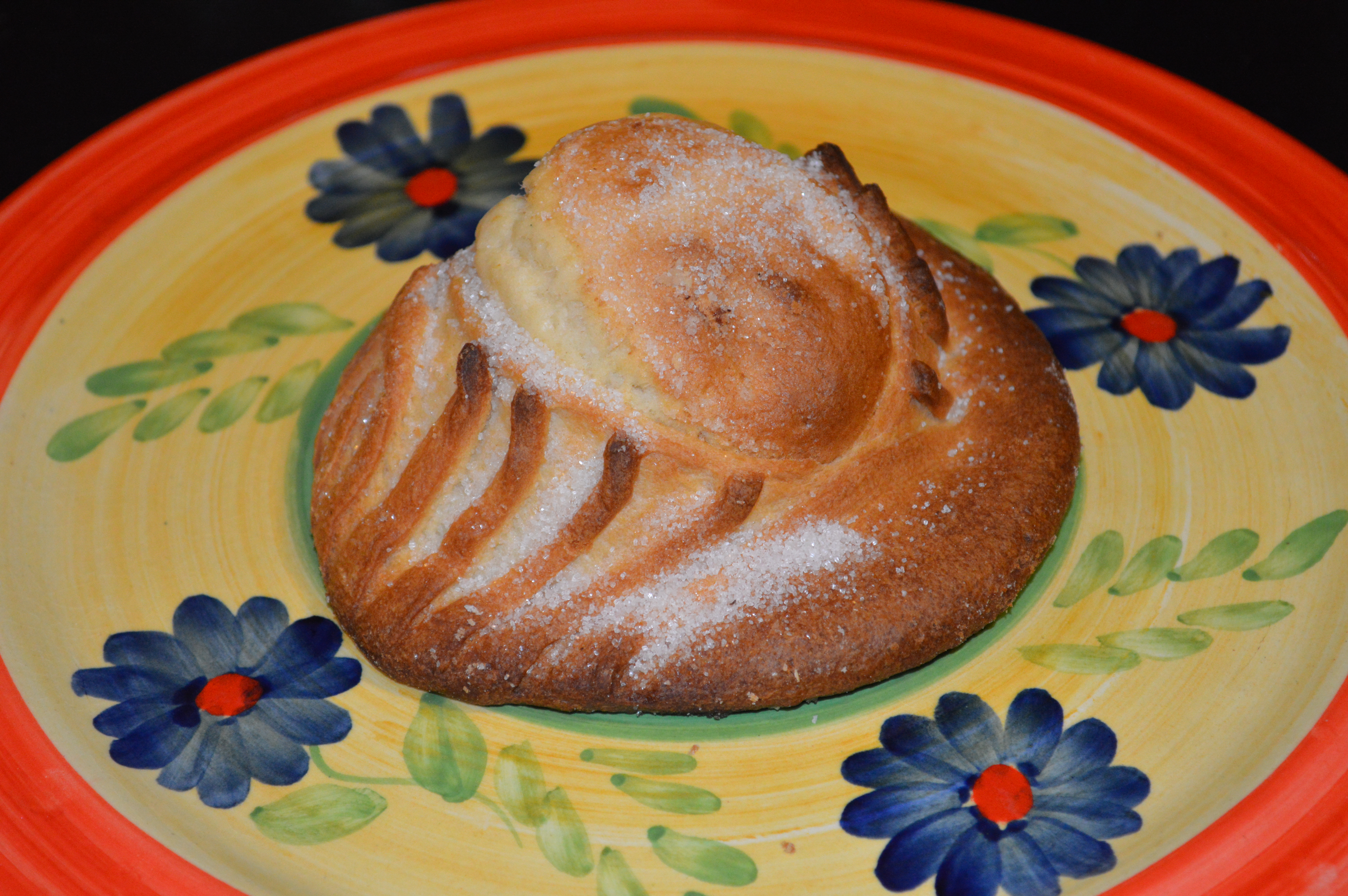 Sweet bread called chilindrina from the El Sol bakery in Colonia Obrera, Mexico City